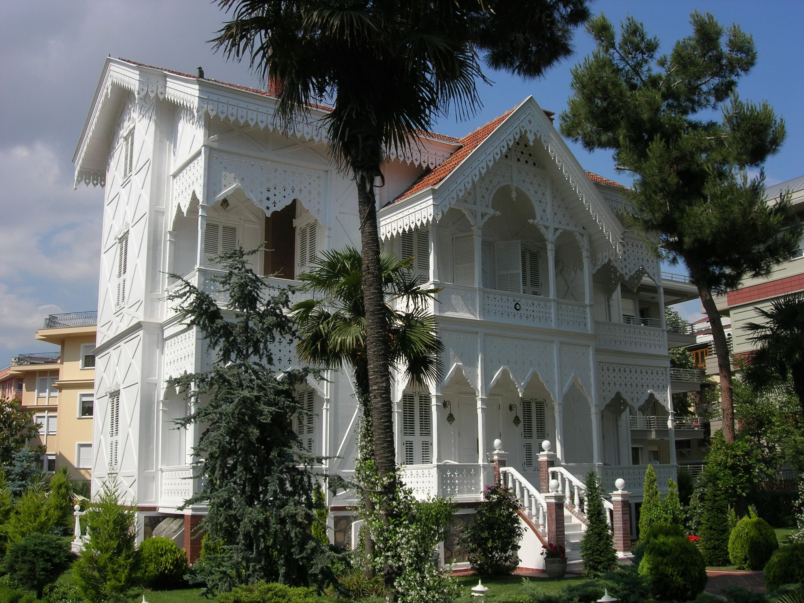 House of the Simeonoglou family in Yeşilköy, where in 1878 the Treaty of San Stefano was signed.